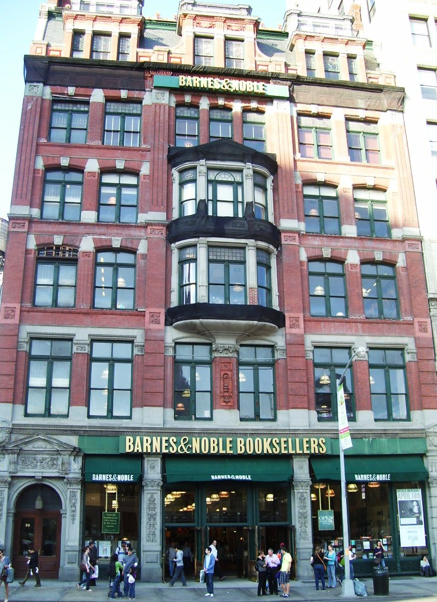 Barnes & Noble's Union Square store in Manhattan, New York City, originally The Century Building, at 33 East 17th Street between Park Avenue South and Broadway on Union Square in Manhattan, New York City, was designed by William Schickel in the Queen Anne style and built in 1880-1881 as the headquarters of the Century Publishing Company, which published the popular The Century Magazine for adults and St. Nicholas Magazine for children.